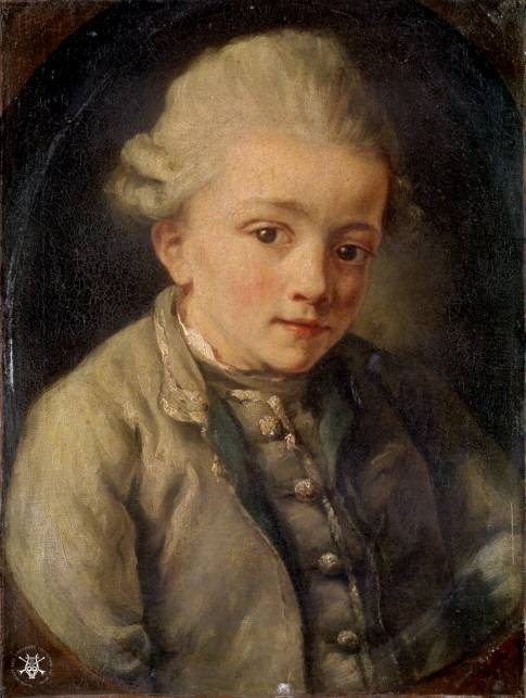 Signed at middle right, on proper left shoulder: ”BJG”. New Haven, Connecticut, USA, Yale University. Provenance: A.S. Rambo, art dealer in Paris, offered for sale as part of a private collection of 30 paintings in 1910. Belle Skinner, Holyoke, Massachusetts, USA, acquired in Paris during summer 1911. Yale University, New Haven, Connecticut, USA, acquired 1960. Exhibitions: Mozart Museum, Salzburg, Austria, July 23 to October 28, 1910, in connection with the Mozart Festival. 4326 visitors. Reported in Austrian and German newspapers and journals, during and after the exhibition, as a portrait of Mozart. (However, the identification of the sitter as Mozart has never been confirmed and should be treated with scepticism.)